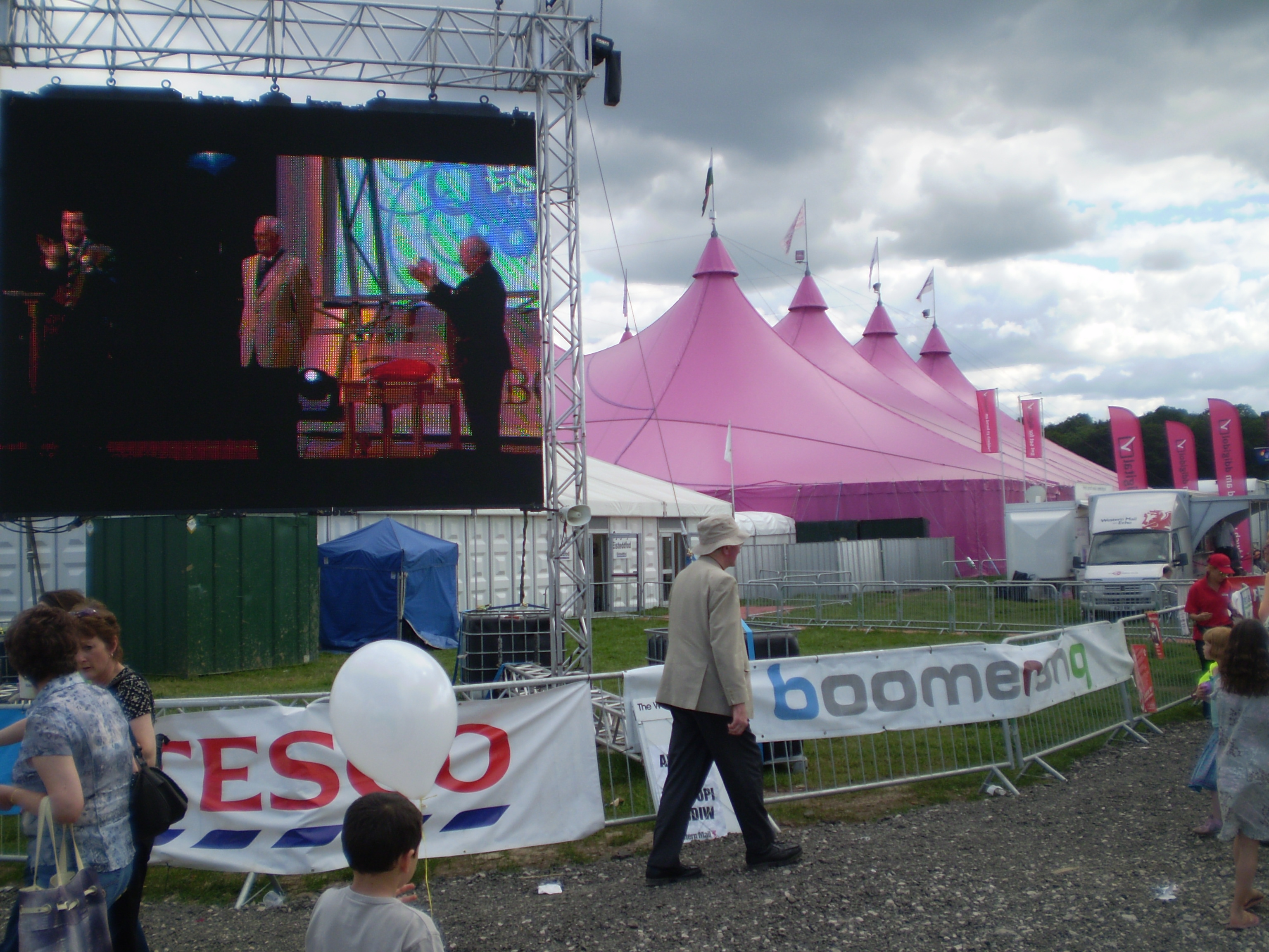 Many visitors to the National Eisteddfod never go into the Pavillion (background), being able to view the competitions on the big screen (foreground).